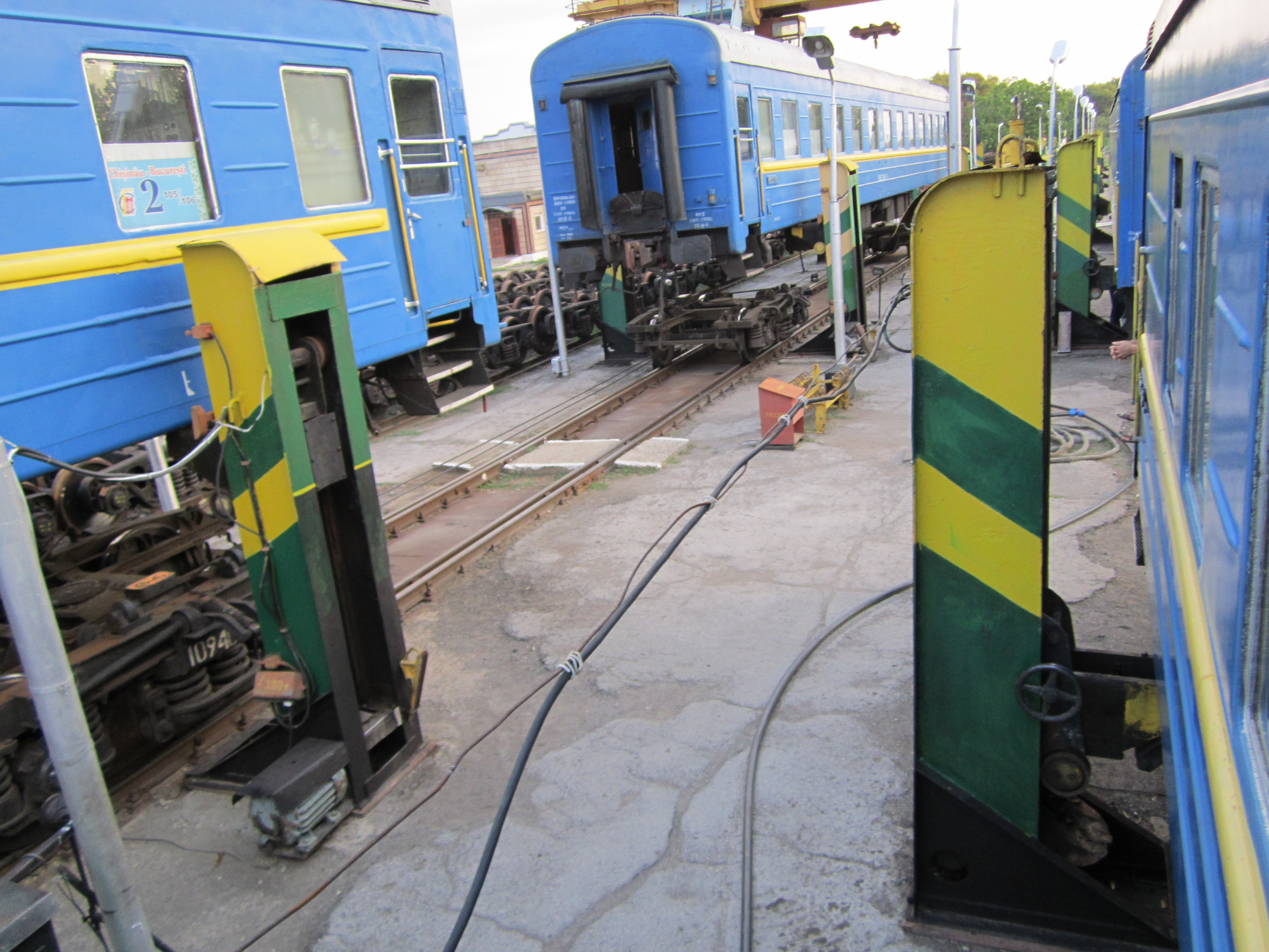 Ungheni train car jack